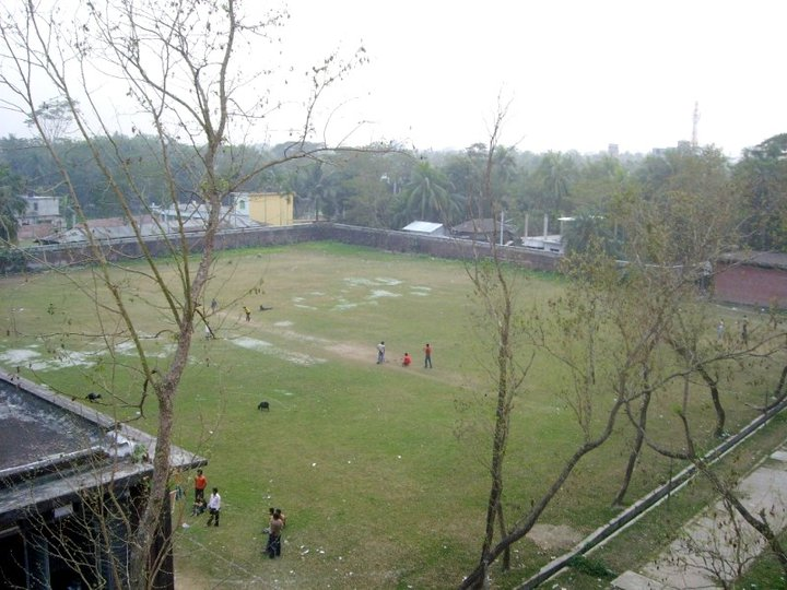 Playground